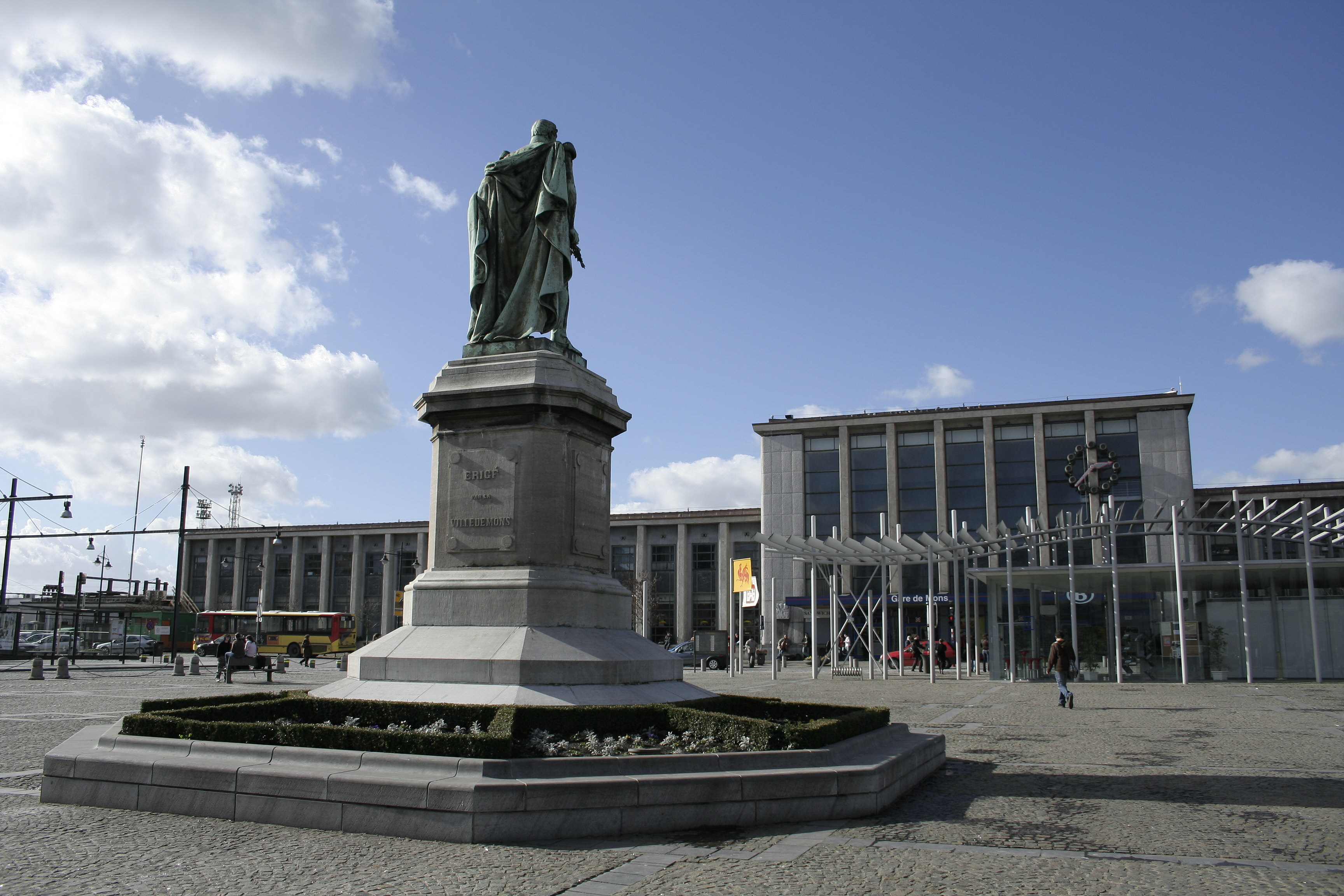 Mons (Belgium), Place Léopold. – The Léopold I of Belgium statue and the train station.